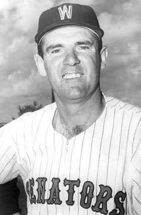 Professional baseball player Danny O'Connell